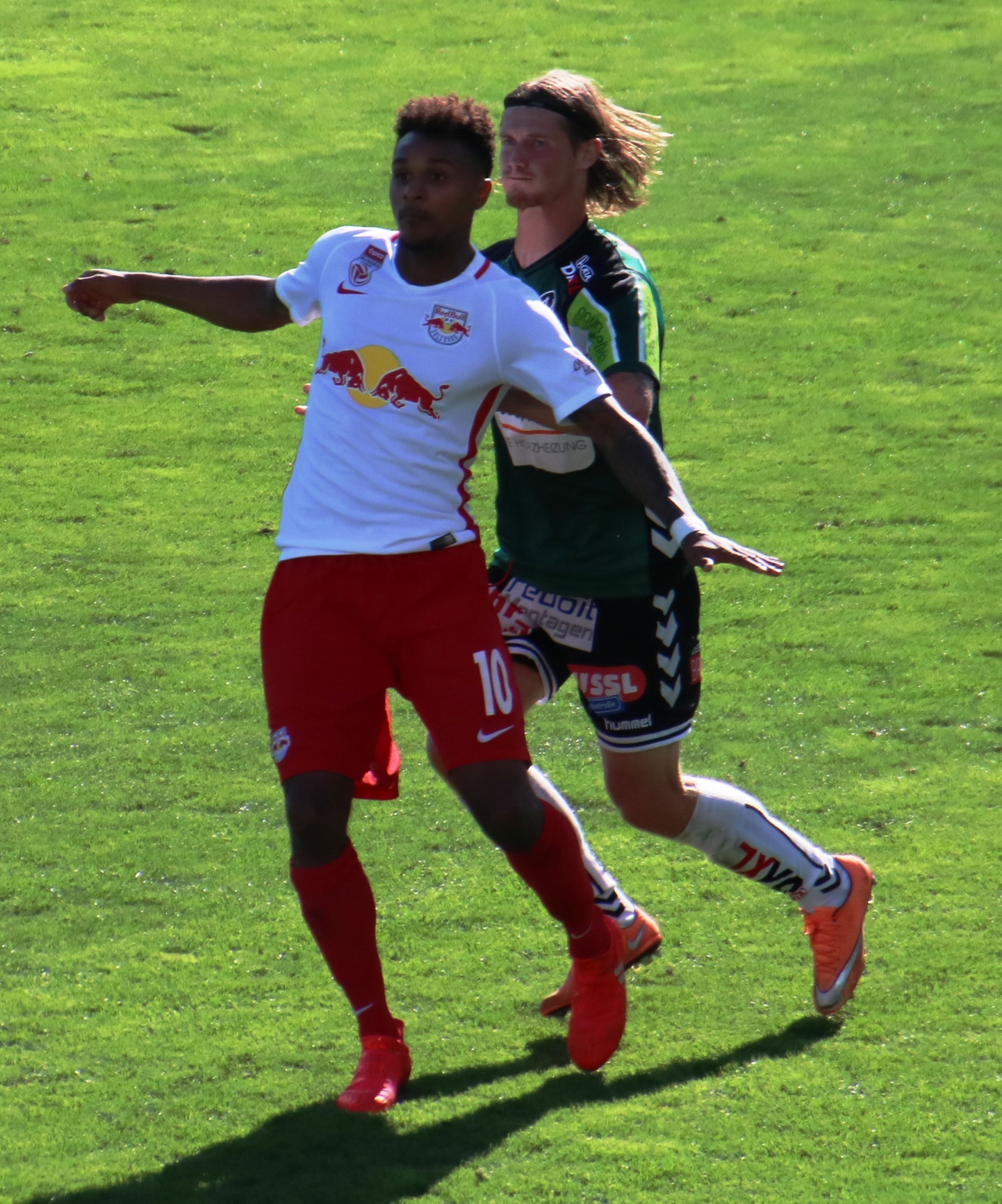 league match Austrian Bundesliga